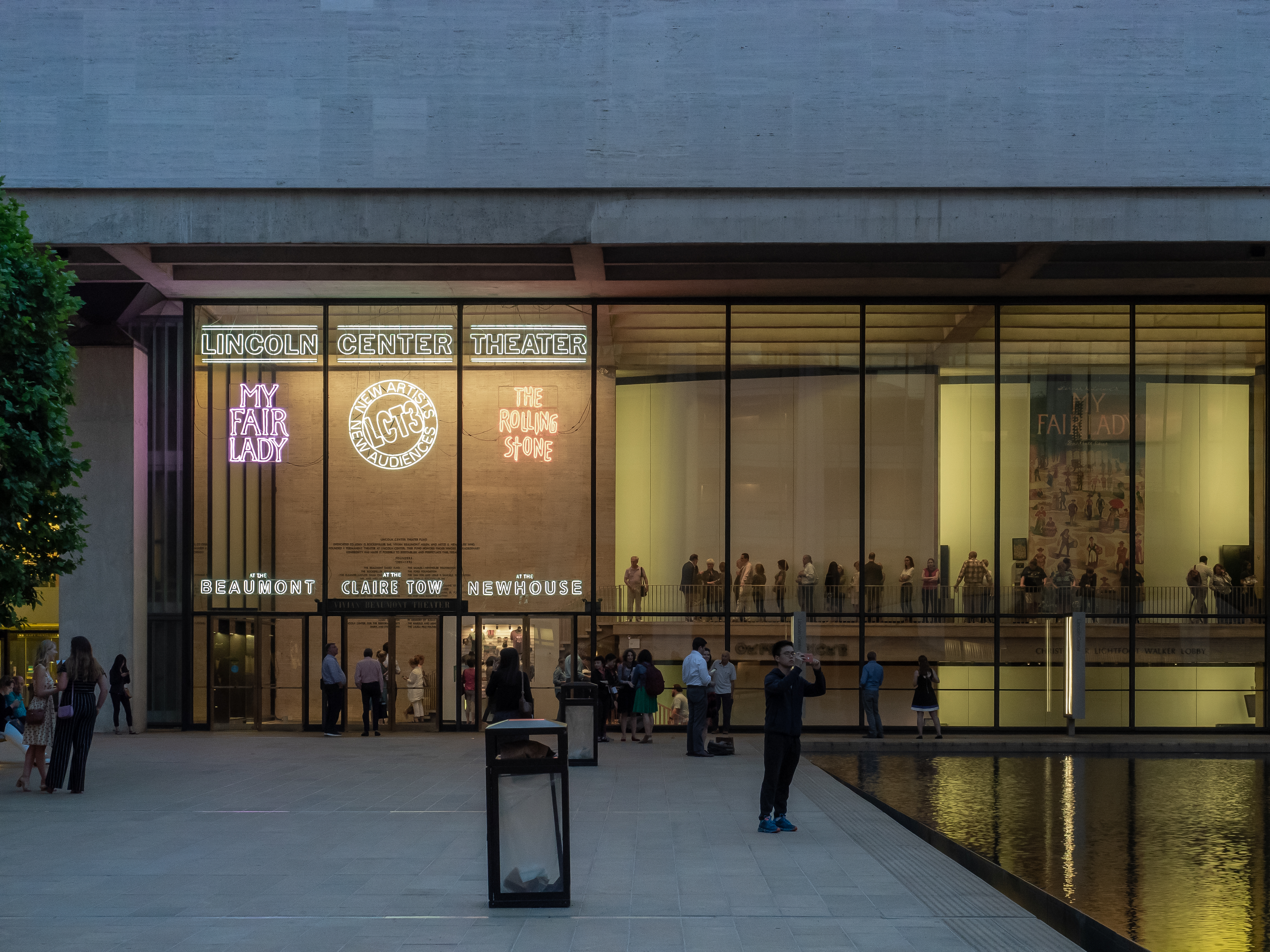 As of July 2019